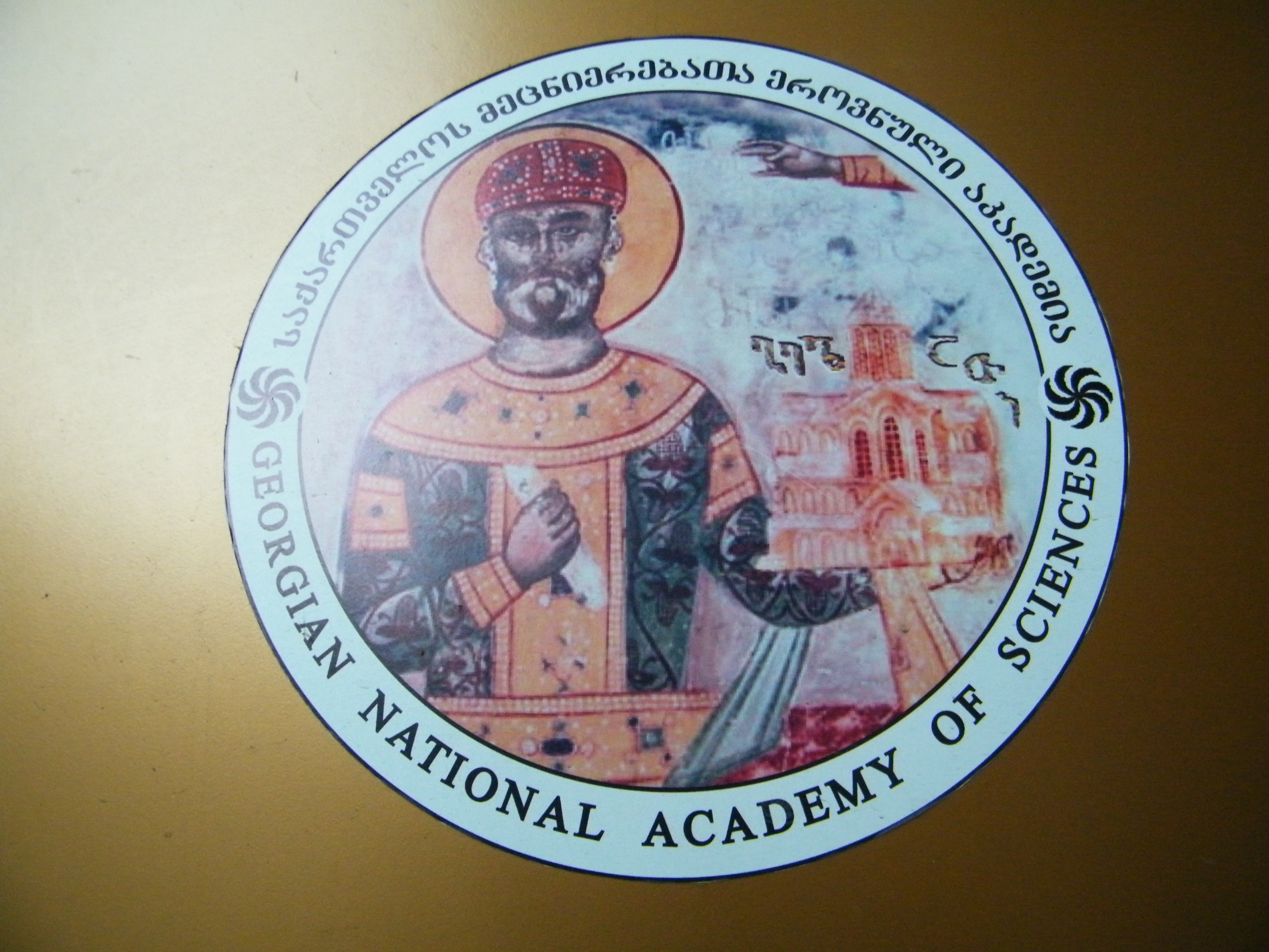 Gerb of Georgian National Academy of Sciences